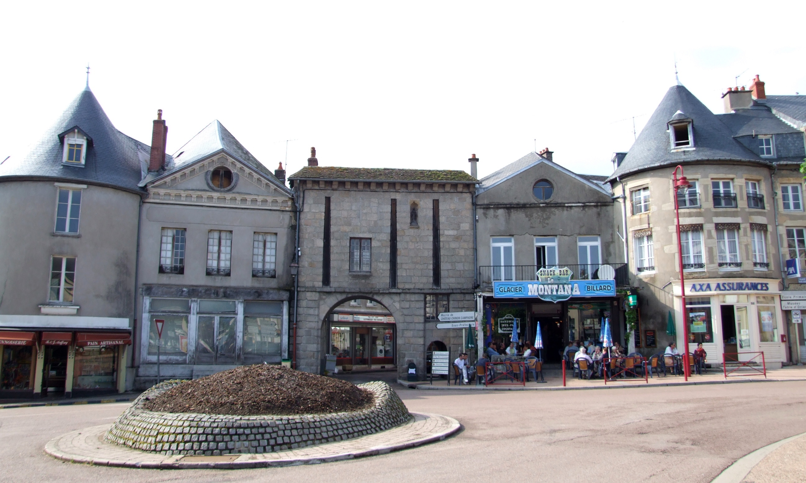 Château-Chinon (Ville), Nievre, Burgundy, FRANCE